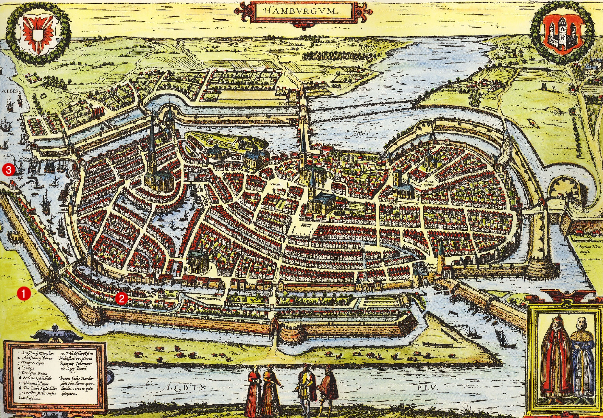 Description: historical sight of the German town of Hamburg by Georg Braun and Franz Hogenberg (between 1572 and 1618) Uploaded by: --Immanuel Giel 14:33, 3 January 2006 (UTC) Other versions: none